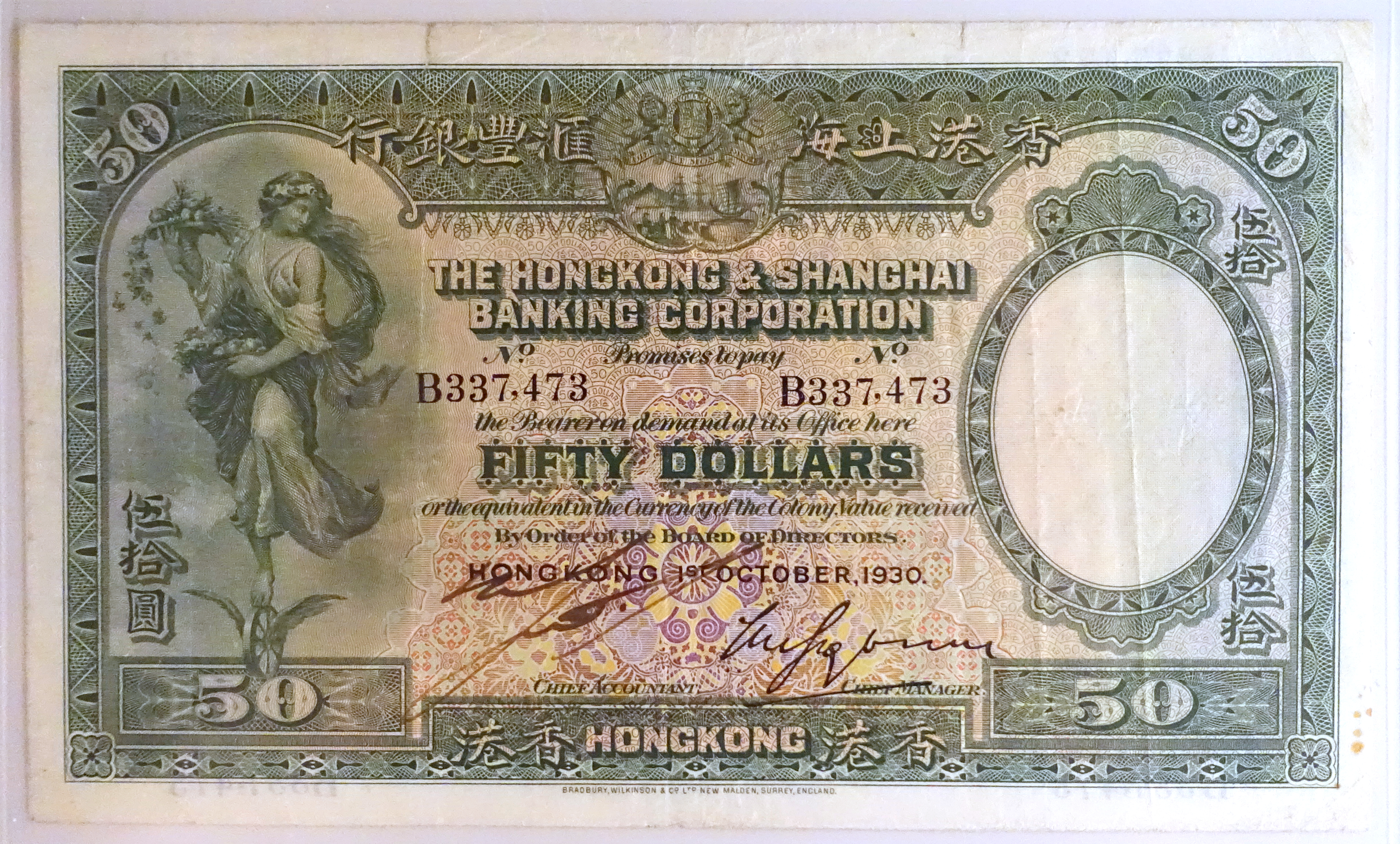 Exhibit in the Hong Kong Museum of History, Hong Kong.